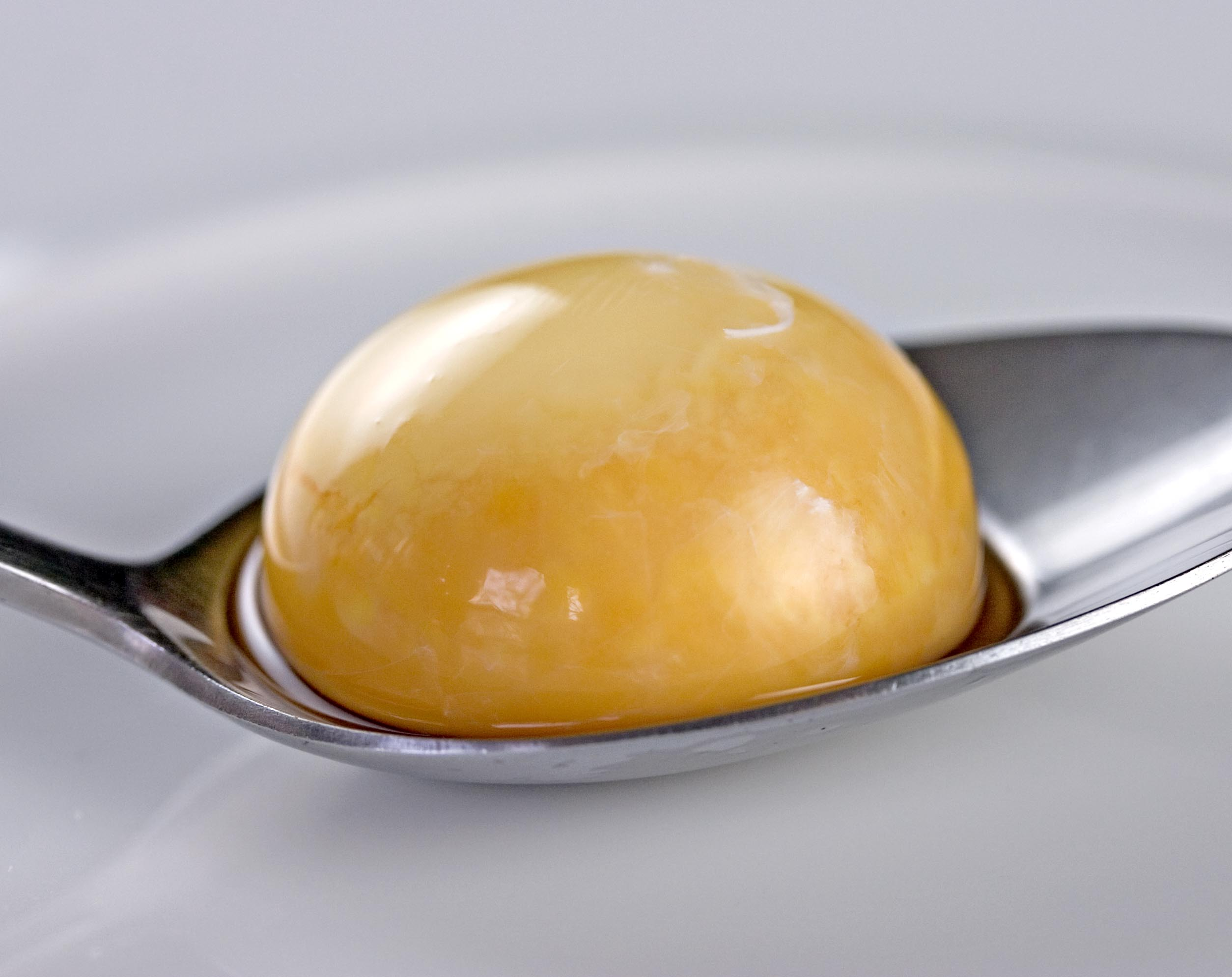 Encapsulated Egg Yolk